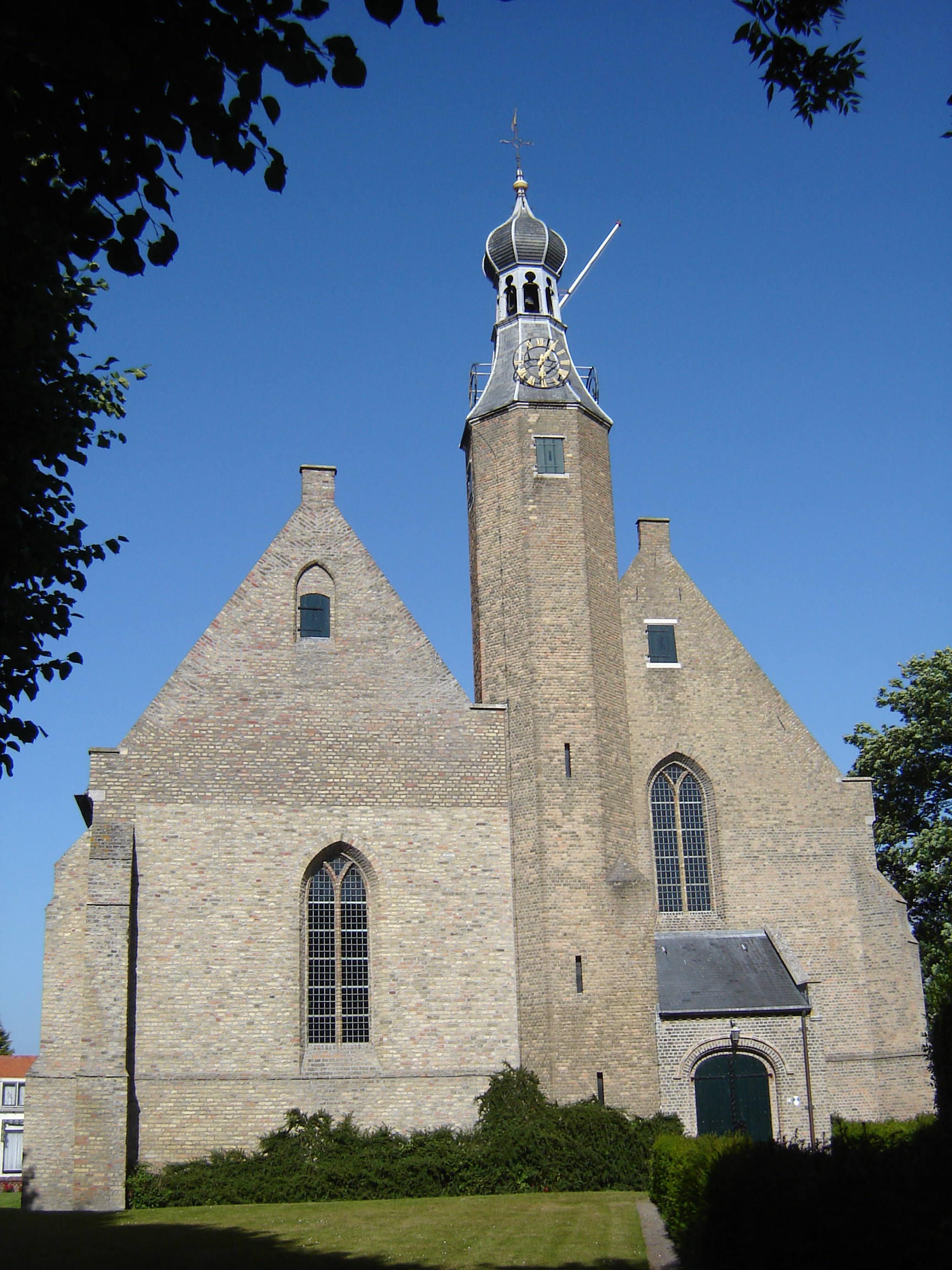 Mariakerk in Cadzand. Cadzand, Sluis, Zeeland, Netherlands